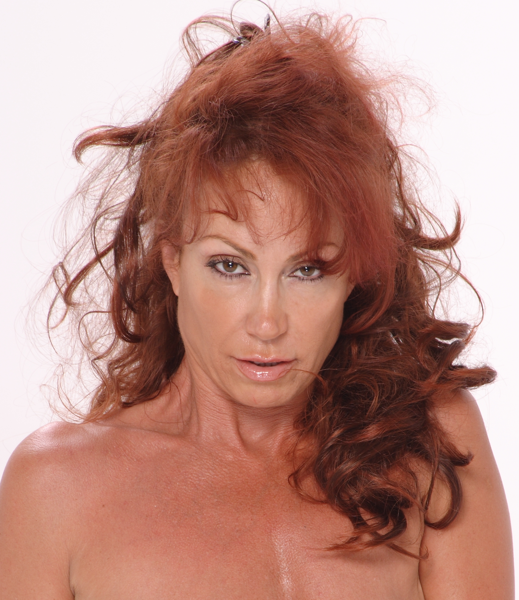 American pornographic actress/model Julie Winchester.